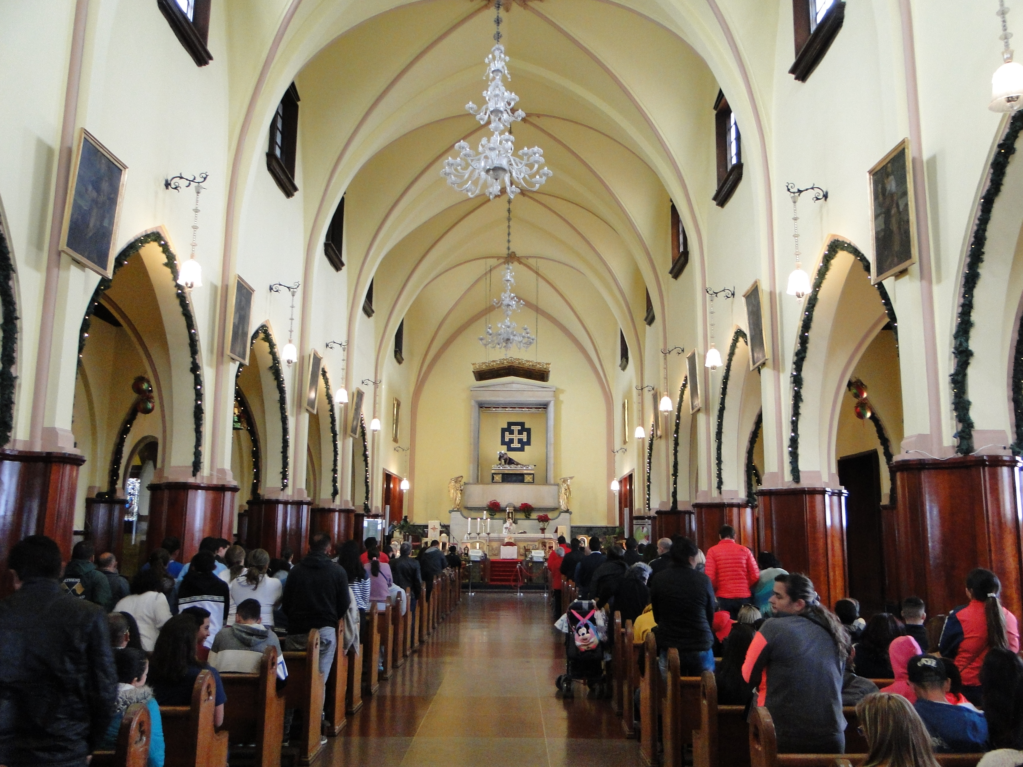 El servicio en la Basilica del Monserrate in Bogota